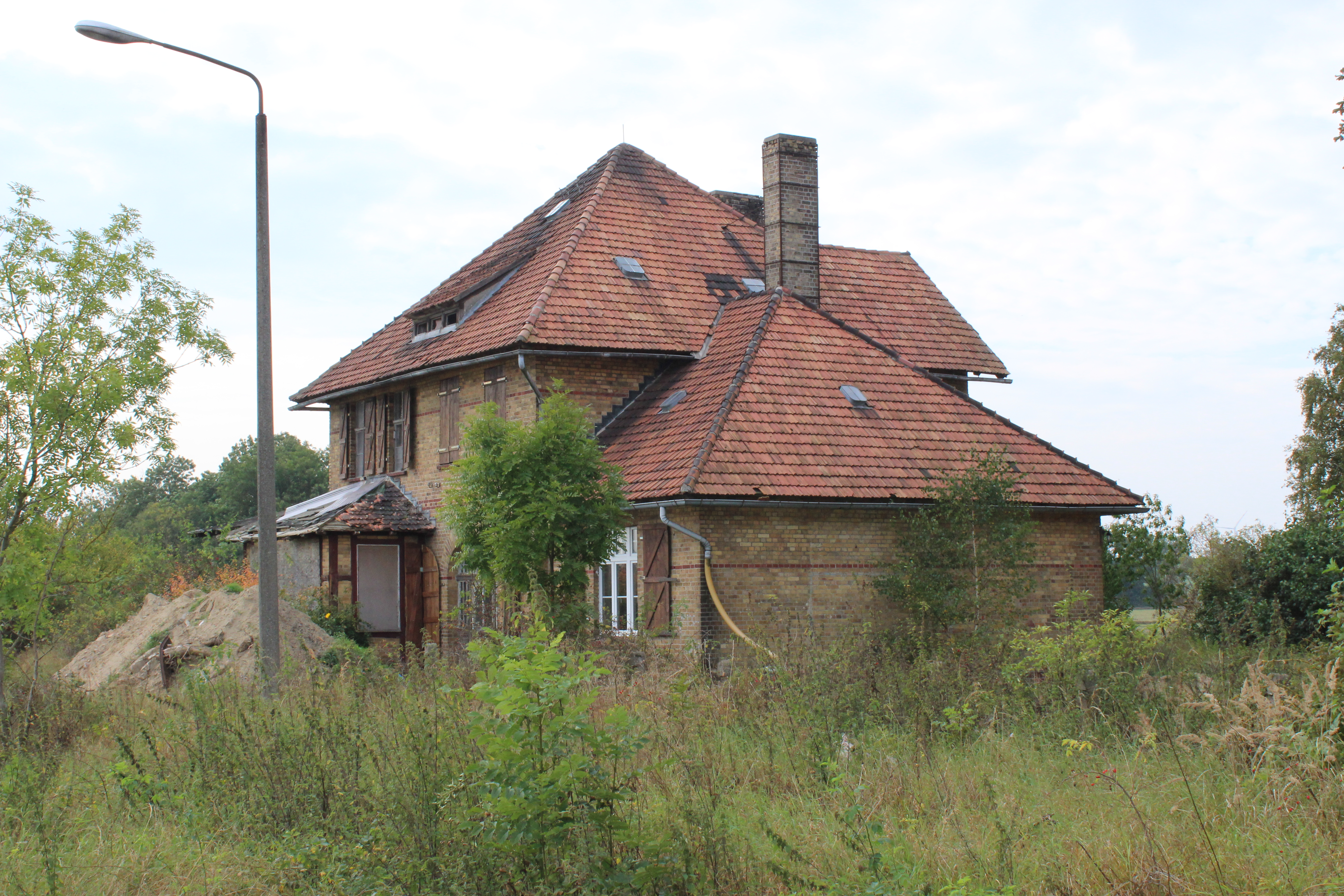 train station Petershagen (Uckermark), station building